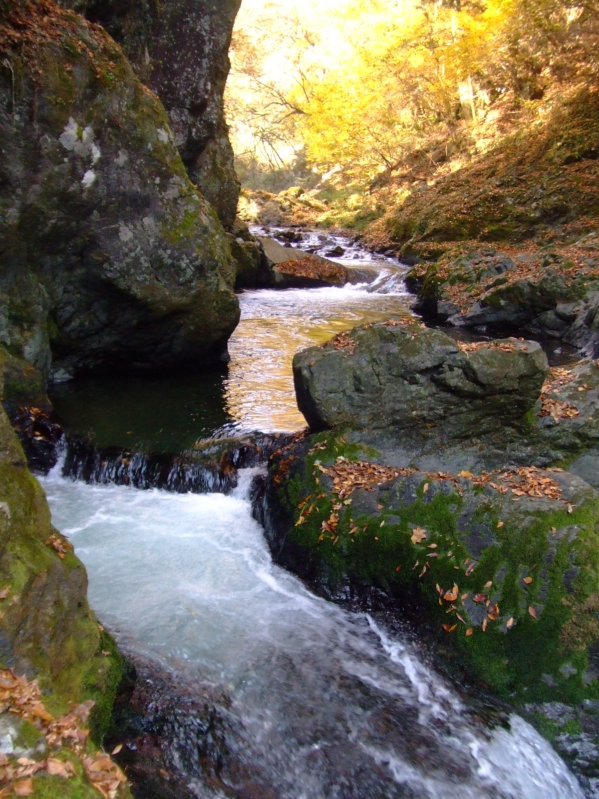 Dangyo-kei, Taishaku-kyō